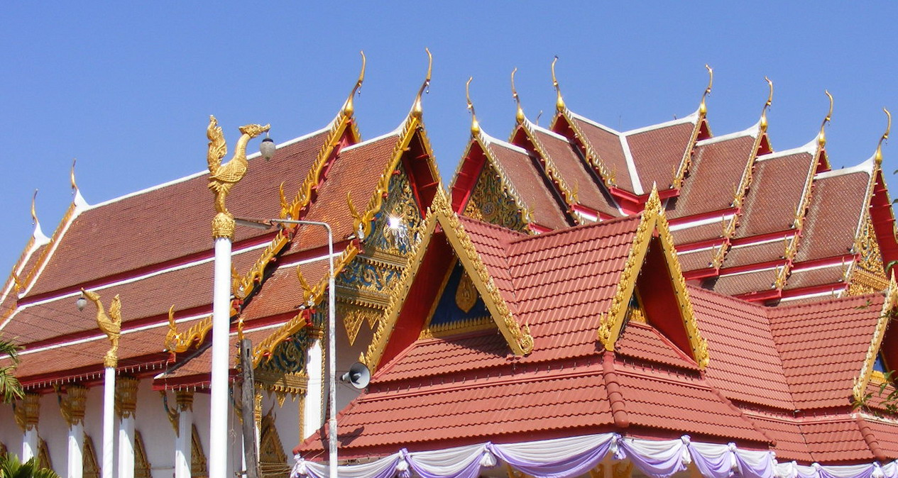 church of Wat Nong Wong, Amphoe Sawankhalok, Sukhothai, Thailand.